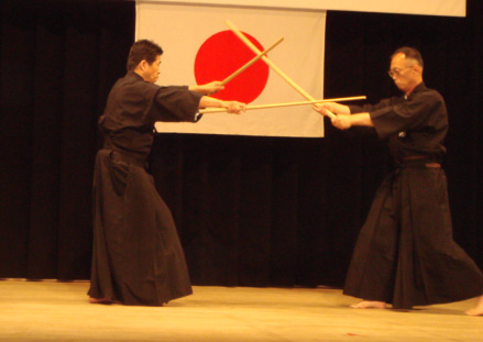 Masters Yoshimoti Kiyoshi and Ishii Toyozumi in demonstration of Hyoho Niten Ichi Ryu, Nito Seiho (set of techniques with two swords